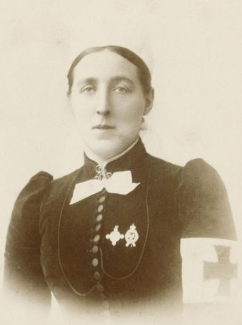 Kate Marsden, photographed in 1892 before she set off for Sakha in Siberia to search for a herb said to cure leprosy. Photo by Otto Renard, Moscow.